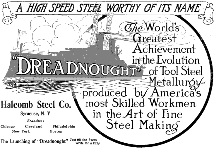 Halcomb Steel Company of Syracuse, New York - Dreadnought steel - 1913